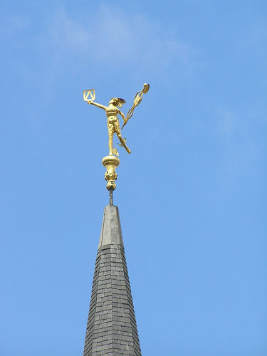 Statue of the god Mercurius on the top of the Belfry of Courtrai (Kortrijk)